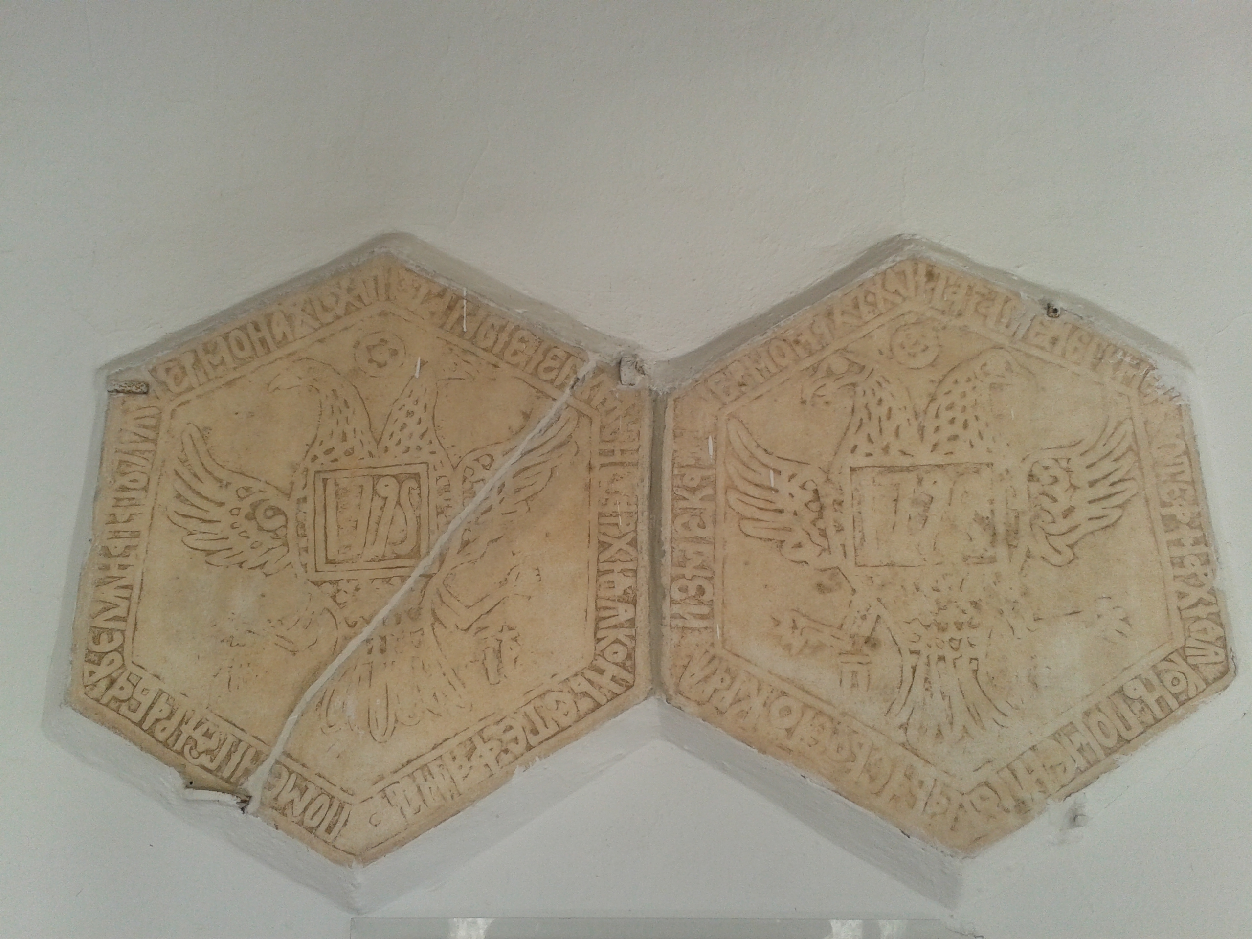 Bigor Monastery